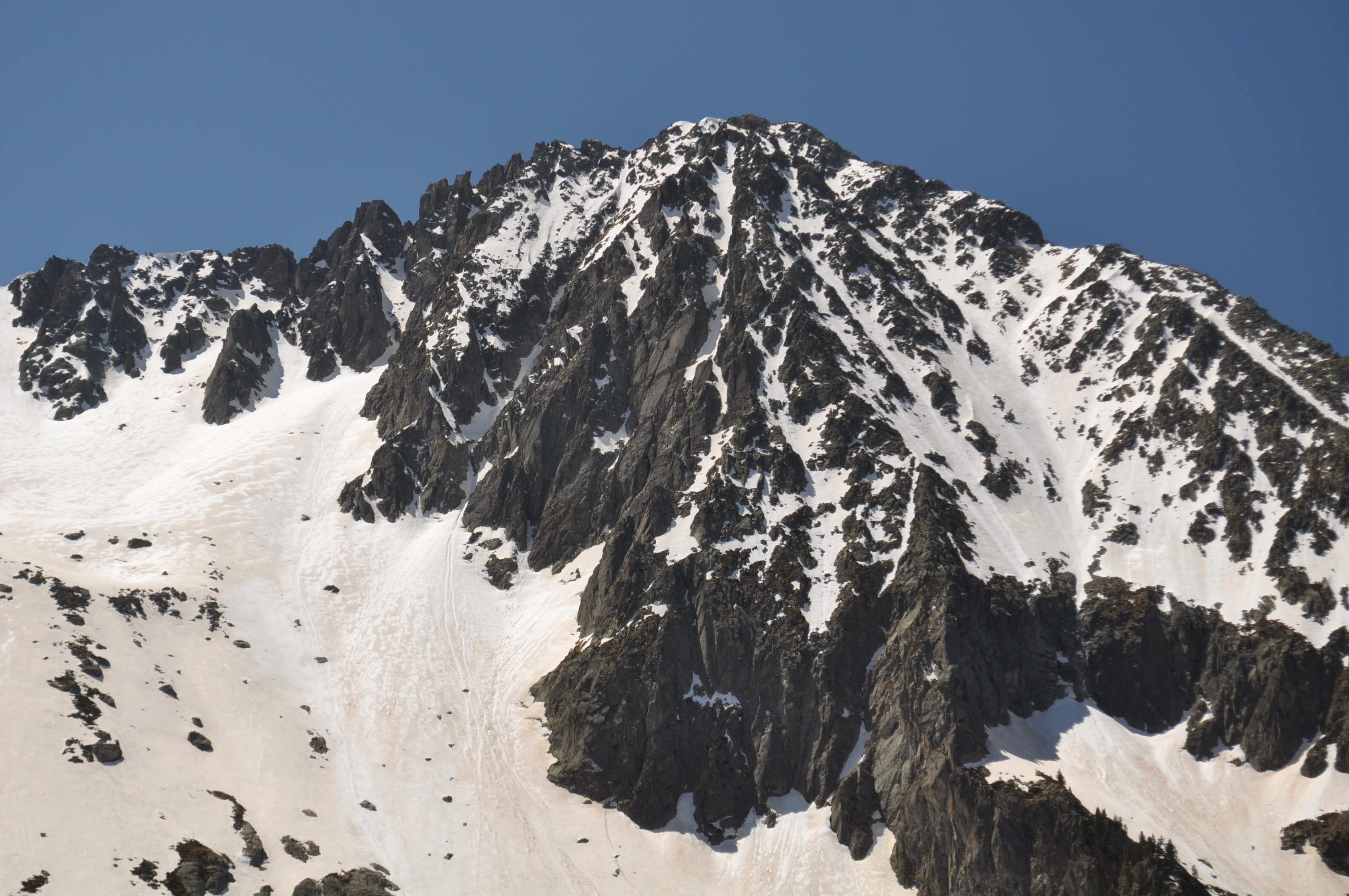 Peak Contesa as seen from Conangles valley